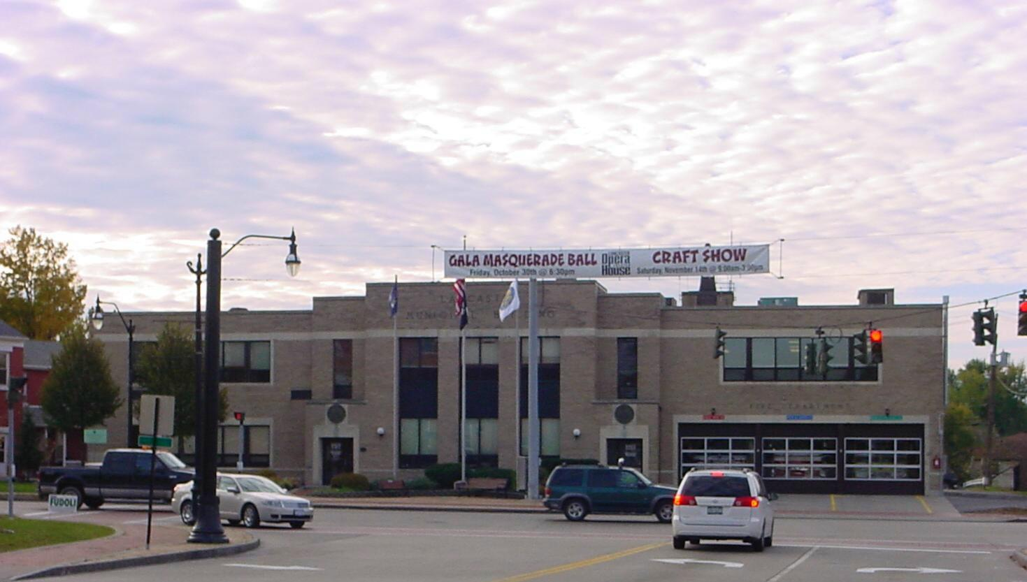 Photo of the Lancaster Municipal Building at Lancaster, New York that is on the National Register of Historic Places.